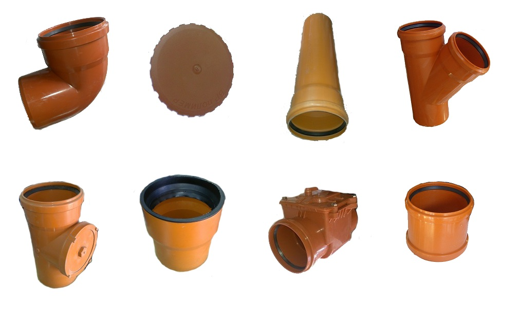 pipe fiting out